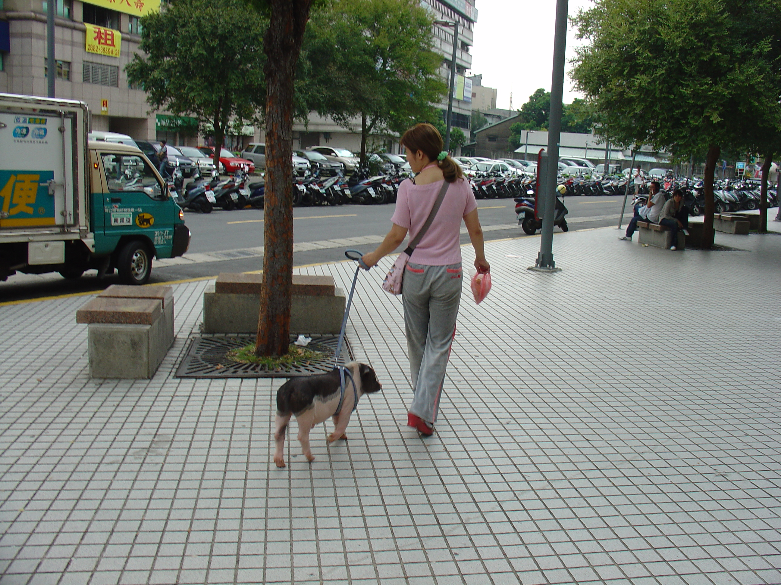 Woman walking a pig in Taiwan, 15 October 2008